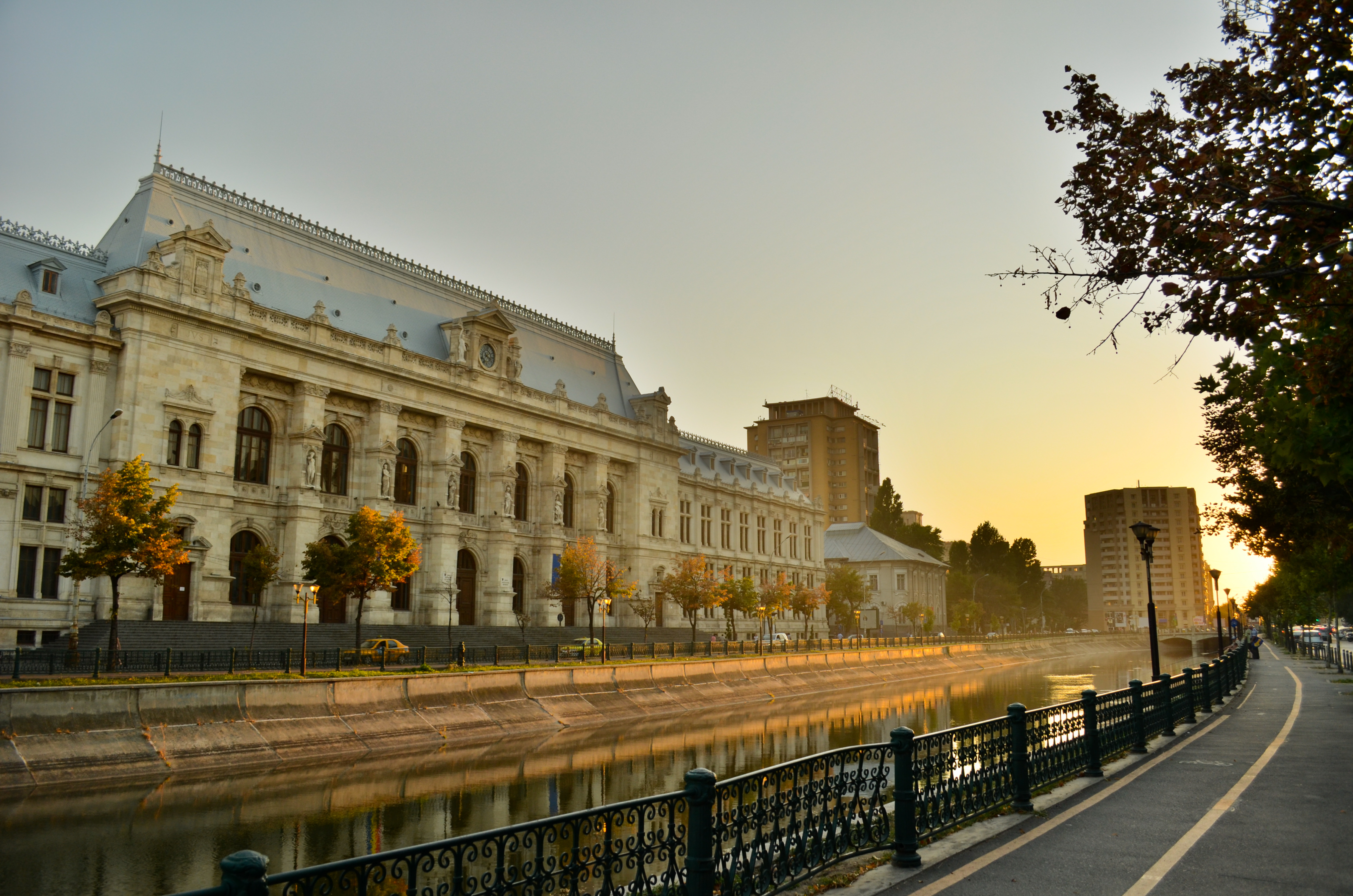 The Palace of Justice, Bucharest, Romania Seen at sunset from the other side of the Dâmbovița riverRomână: Palatul Justiției, București, România Vedere la apus, de pe malul celălalt al râului Dâmbovița